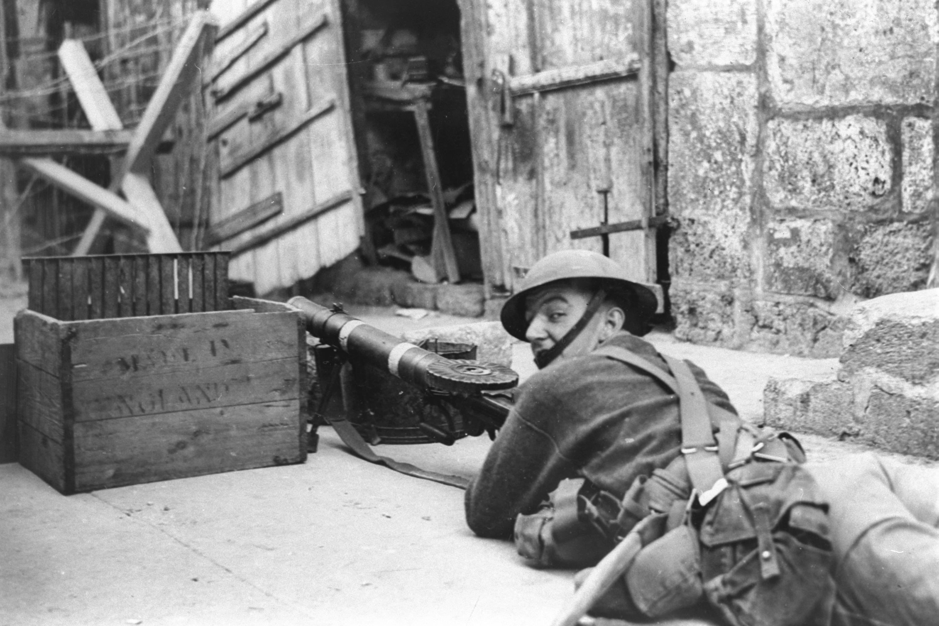 BRITISH SOLDIER WITH A LEWIS MACHINE GUN IN A SHOOTING POST IN THE OLD CITY OF JERUSALEM DURING THE CURFEW IMPOSED FOLLOWING ARAB RIOTING AGAINST JEWISH RESIDENTS. חייל בריט עם מקלע " לואיס " בעמדת ירי בעיר העתיקה בירושלים, בזמן העוצר בתקופת הפרעות בתושבים היהודים.